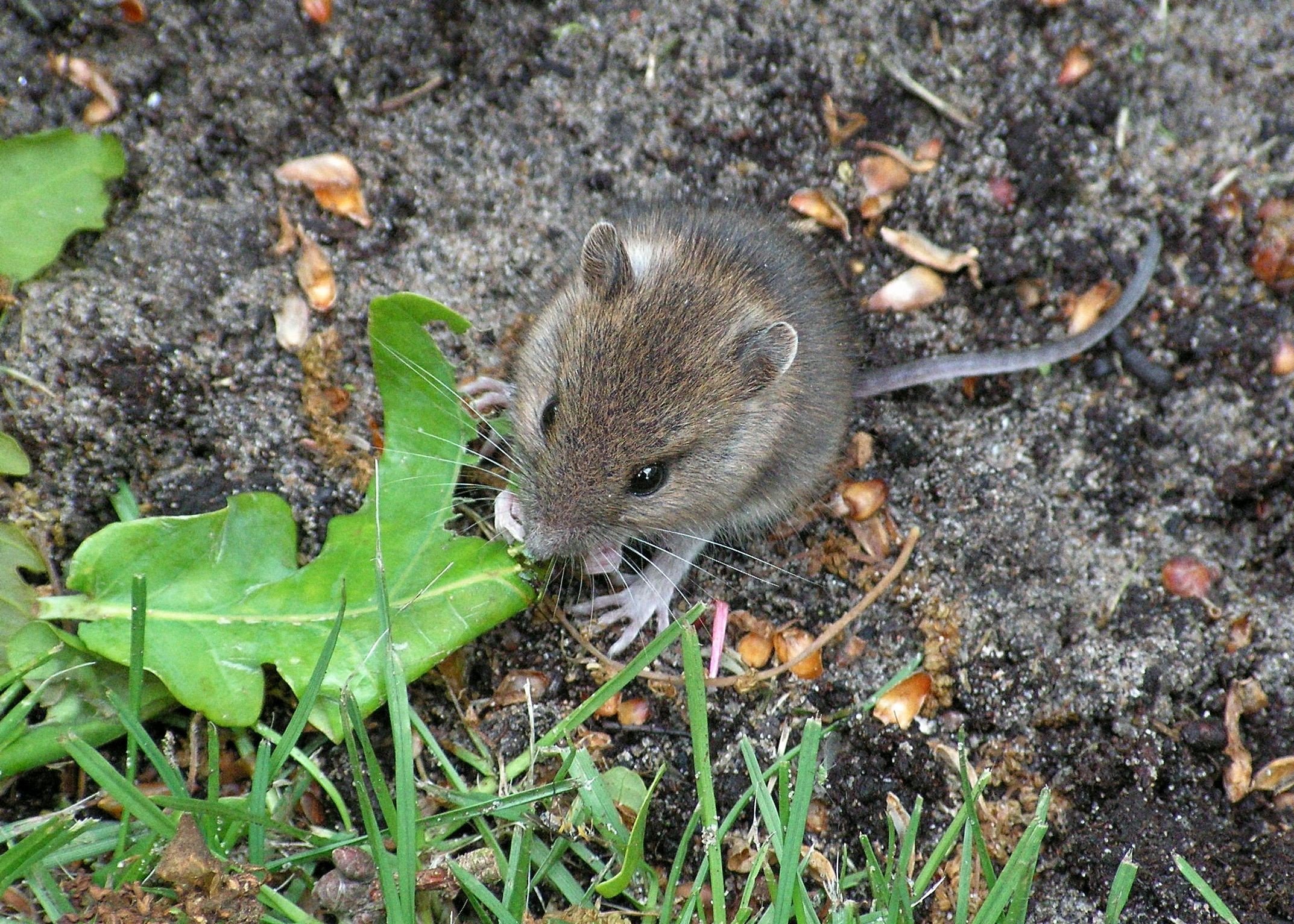 A small mouse (unknown species) eating at an oak leaf. Location: Near Lisse, The Netherlands Photo by Jens Buurgaard Nielsen